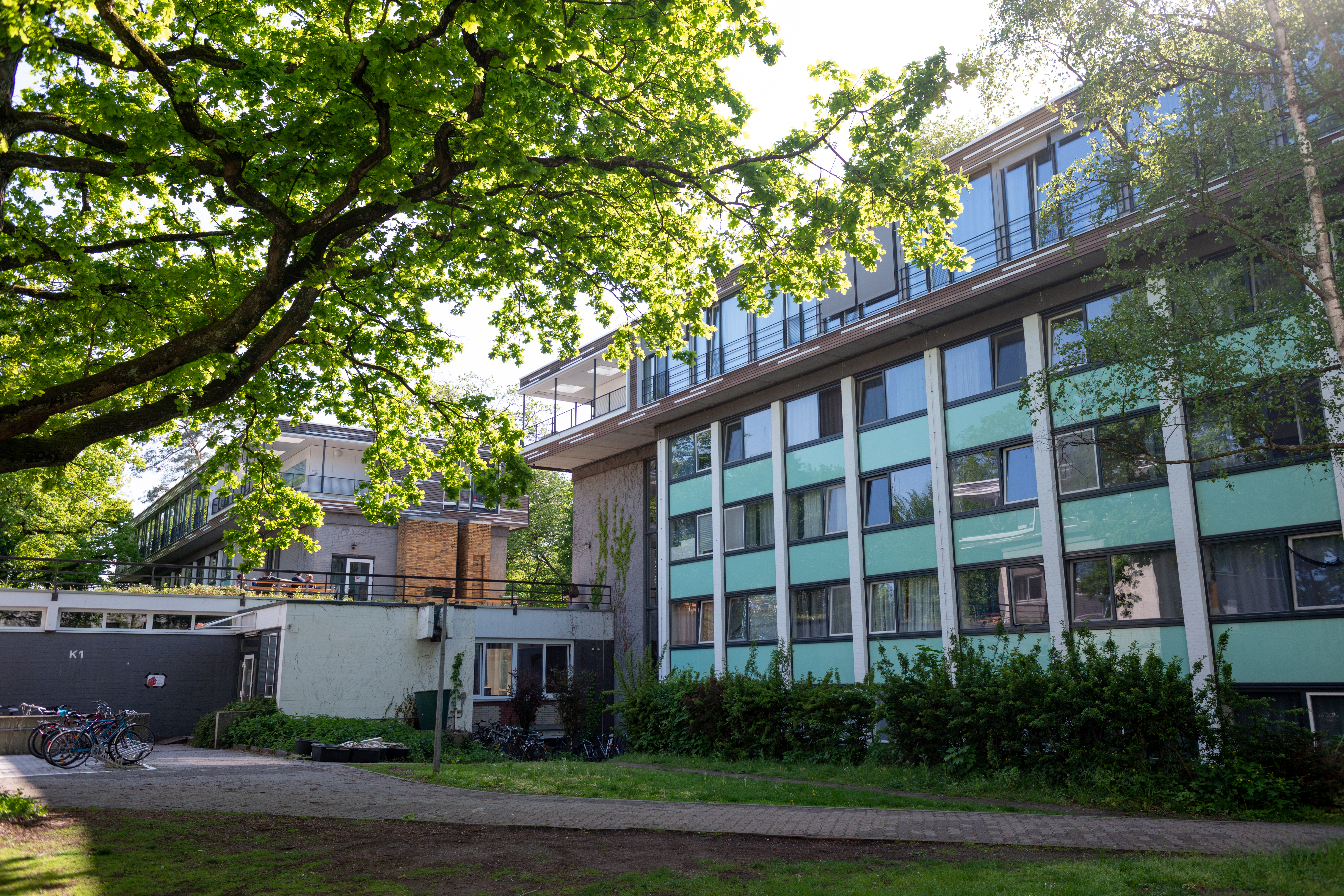 This Picture shows the House K1 of the Hans Dickmann Kolleg dorm in Karlsruhe